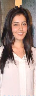 Raashi Khanna at First look launch of 'Madras Cafe'